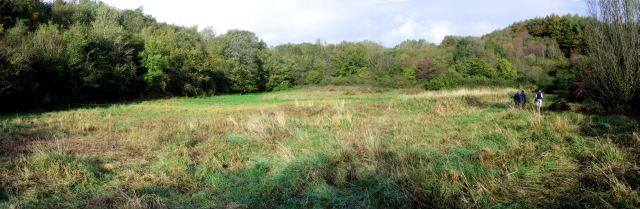 Fardrum Turlough Fardrum Turloughs lie between Monea and Castle Hume Golf club on the shores of Lower Lough Erne. A Turlough is a lake that periodically dries out with the fluctuating watertable due to the bed of the lake being formed from porous limestone. There are 3 turloughs at this location in a shallow valley running parallel to the shore line of the main lough. They are Fardrum, Roosky and Green Lough. The Fardrum turloughs are the only ones in Northern Ireland, and represent the most northerly occurrence of this habitat in Ireland and the UK. All three contain distinctive vegetation communities associated with their inundation zone, including the bryophytes Cinclidotus fontinaloides and Fontinalis antipyretica. Green Lough supports the nationally rare fen violet Viola persicifolia and a very rich ground-beetle fauna including the carabids Blethisa multipunctata and Pelophila borealis. The photograph above shows Green Lough (the southern most turlough) which is hidden behind a small forestry plantation. It shows the turlough in late summer whilst the water levels are low, just below the ground level. A few days later and most of this field was flooded.